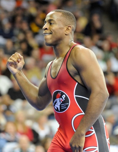 U.S. Army World Class Athlete Program Greco-Roman wrestler SPC Justin Lester secures his first Olympic berth with a victory over Minnesota Storm's C.P. Schlatter in the 66-kilogram/145.5-pound division of the 2012 U.S. Olympic Wrestling Team Trials on April 21 at Carver-Hawkeye Arena in Iowa City, Iowa. U.S. Army photo by Tim Hipps, IMCOM Public Affairs